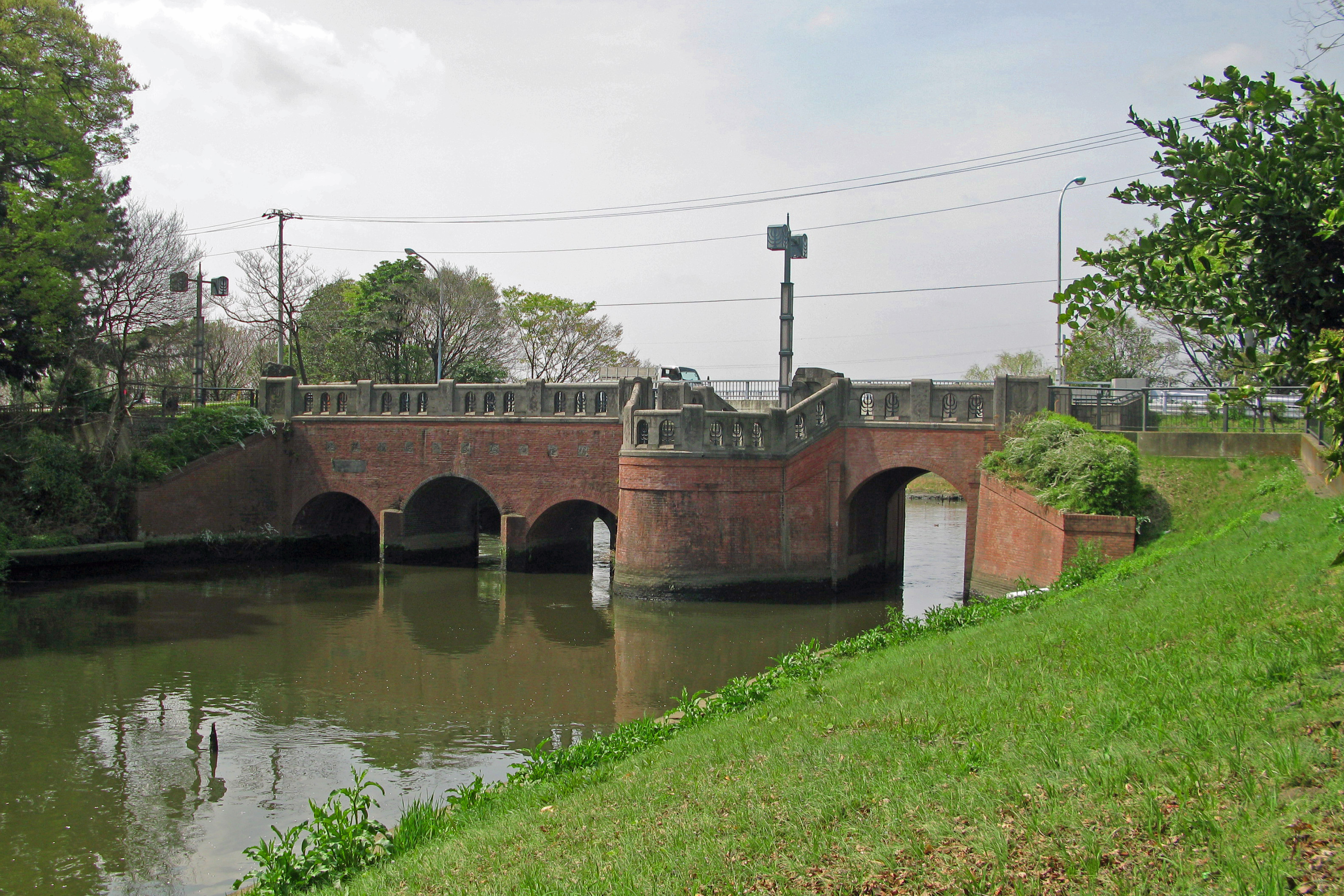 Koumon Bridge（Lock gate Bridge） Katsushika Ward, Tokyo, Japan